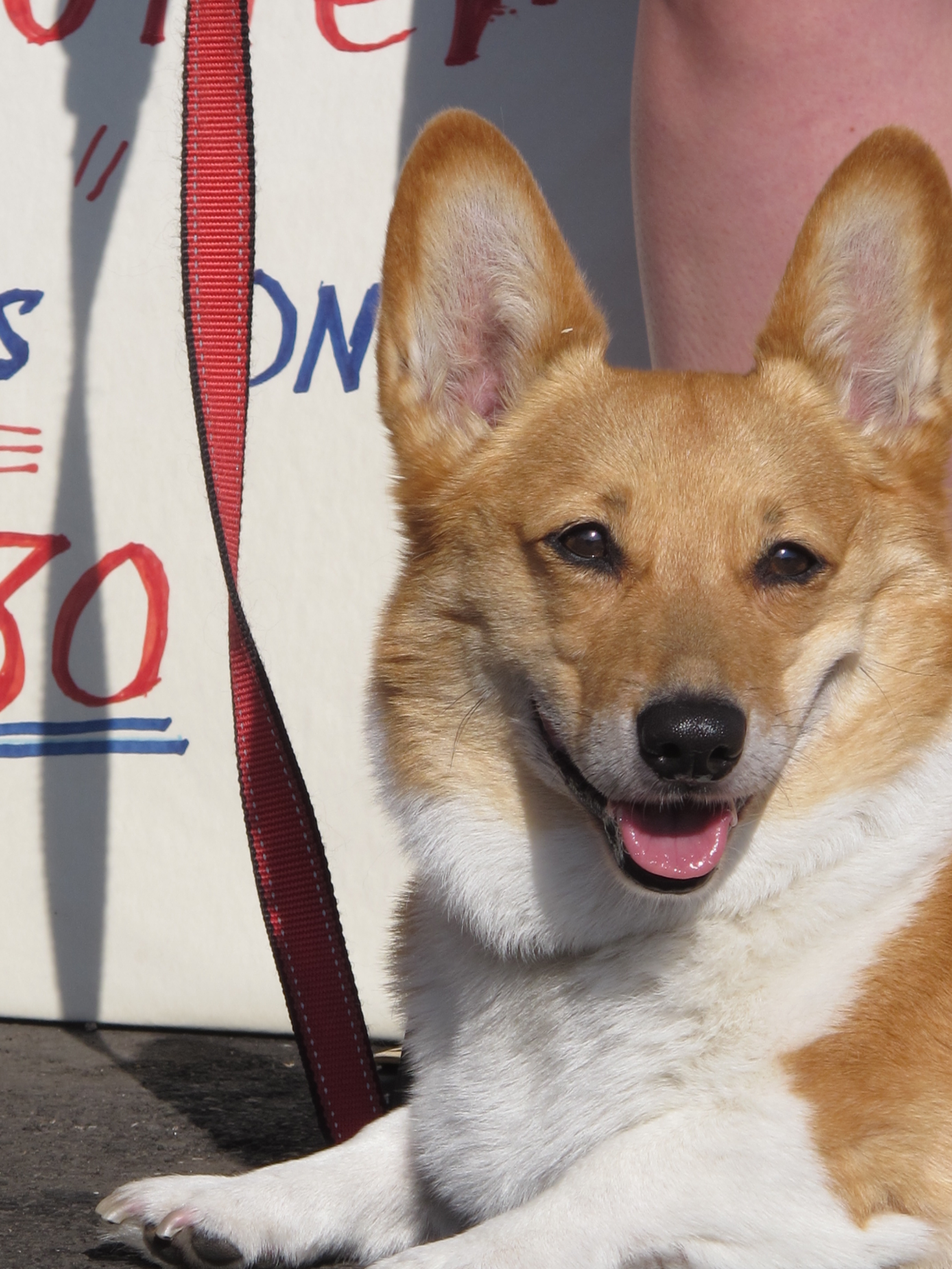 Sutter Brown, First Dog of the State of California (fall 2012)